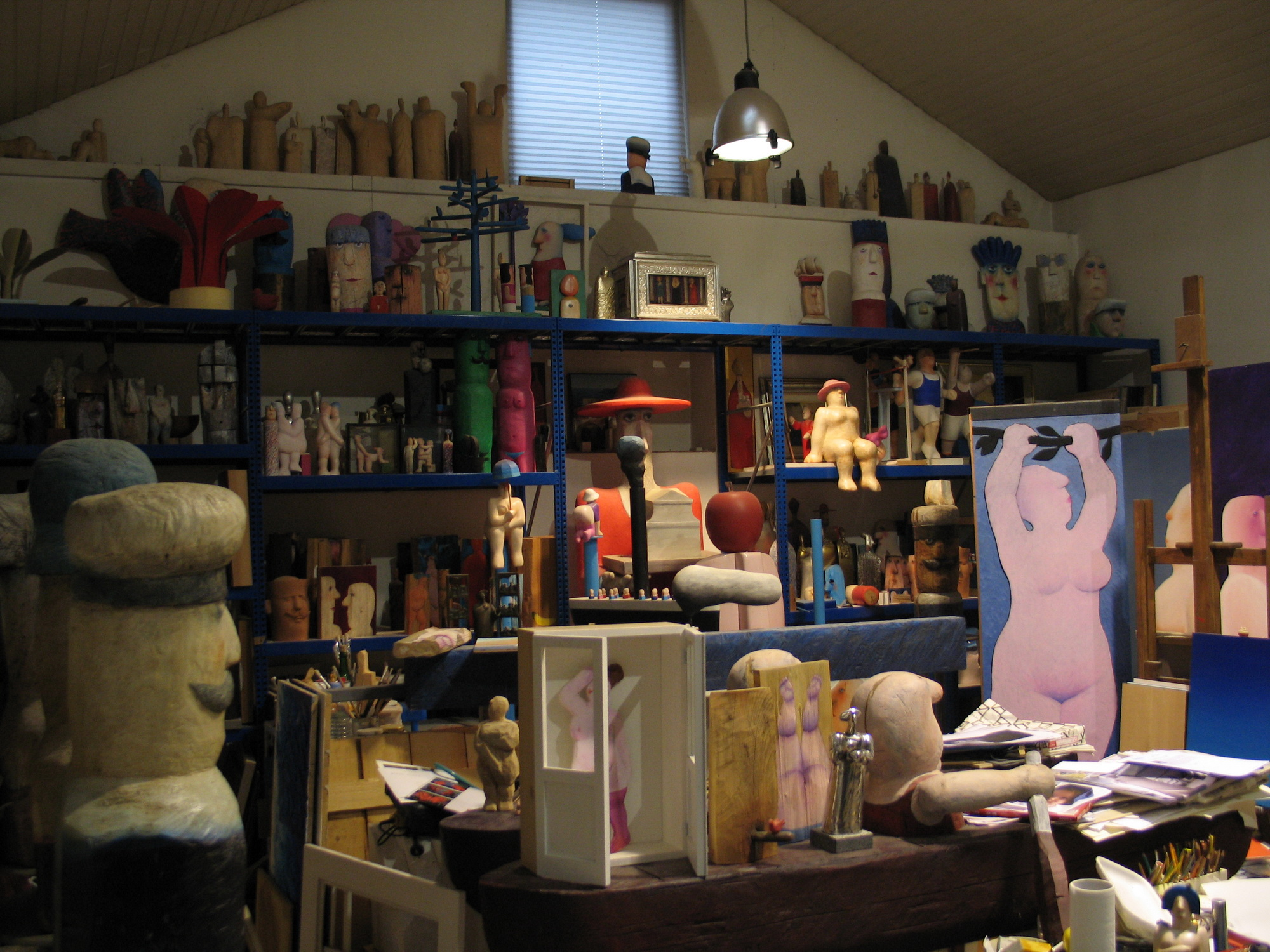 Deatail of the Vasko Lipovac's Atelier